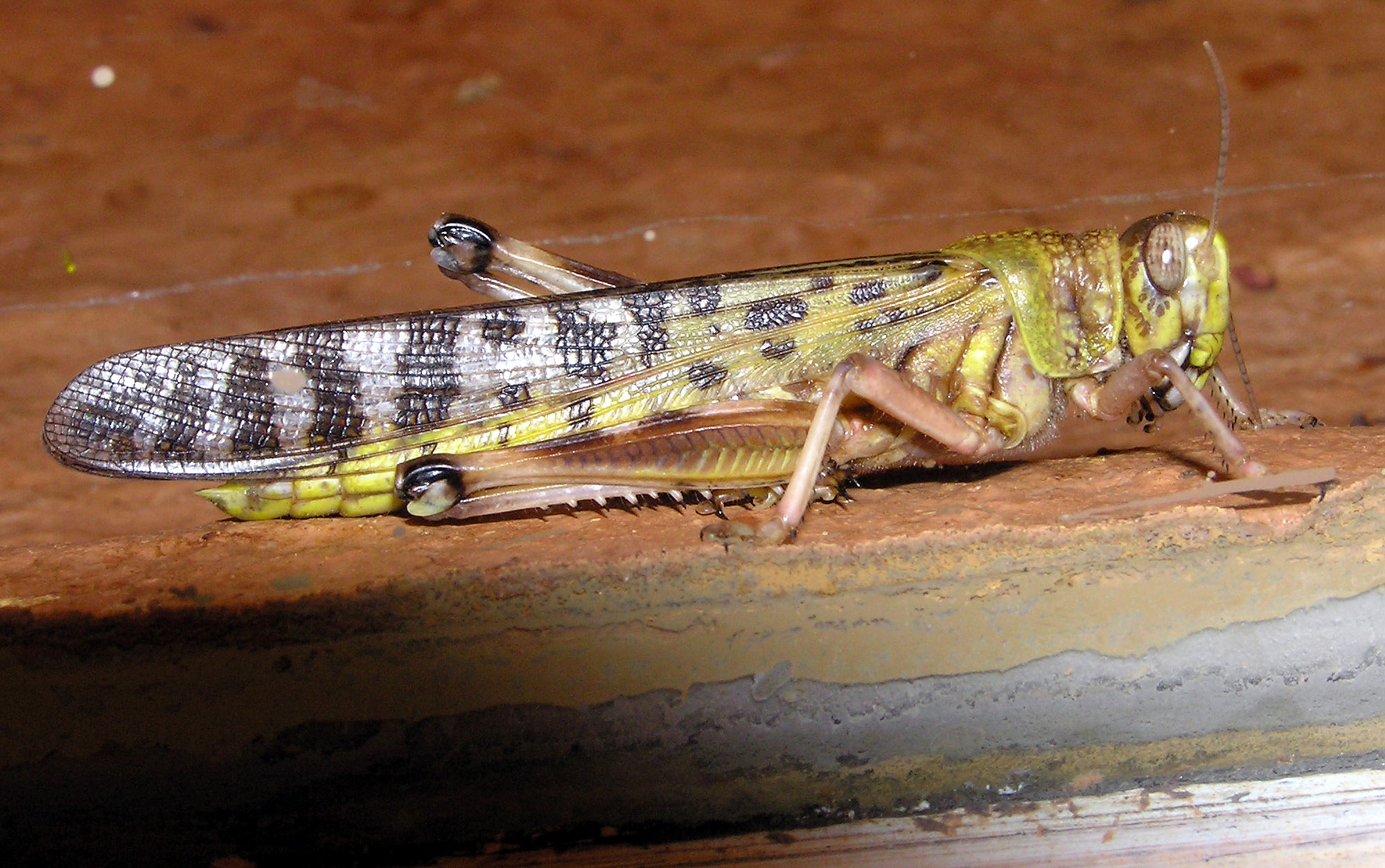 Desert Locust Schistocerca gregaria at Bristol Zoo, Bristol, England. Photographed by Adrian Pingstone in January 2005 and released to the public domain.